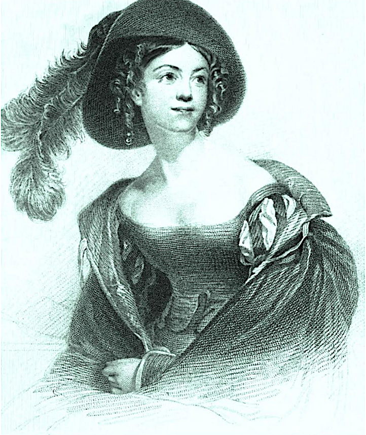 Book cover image